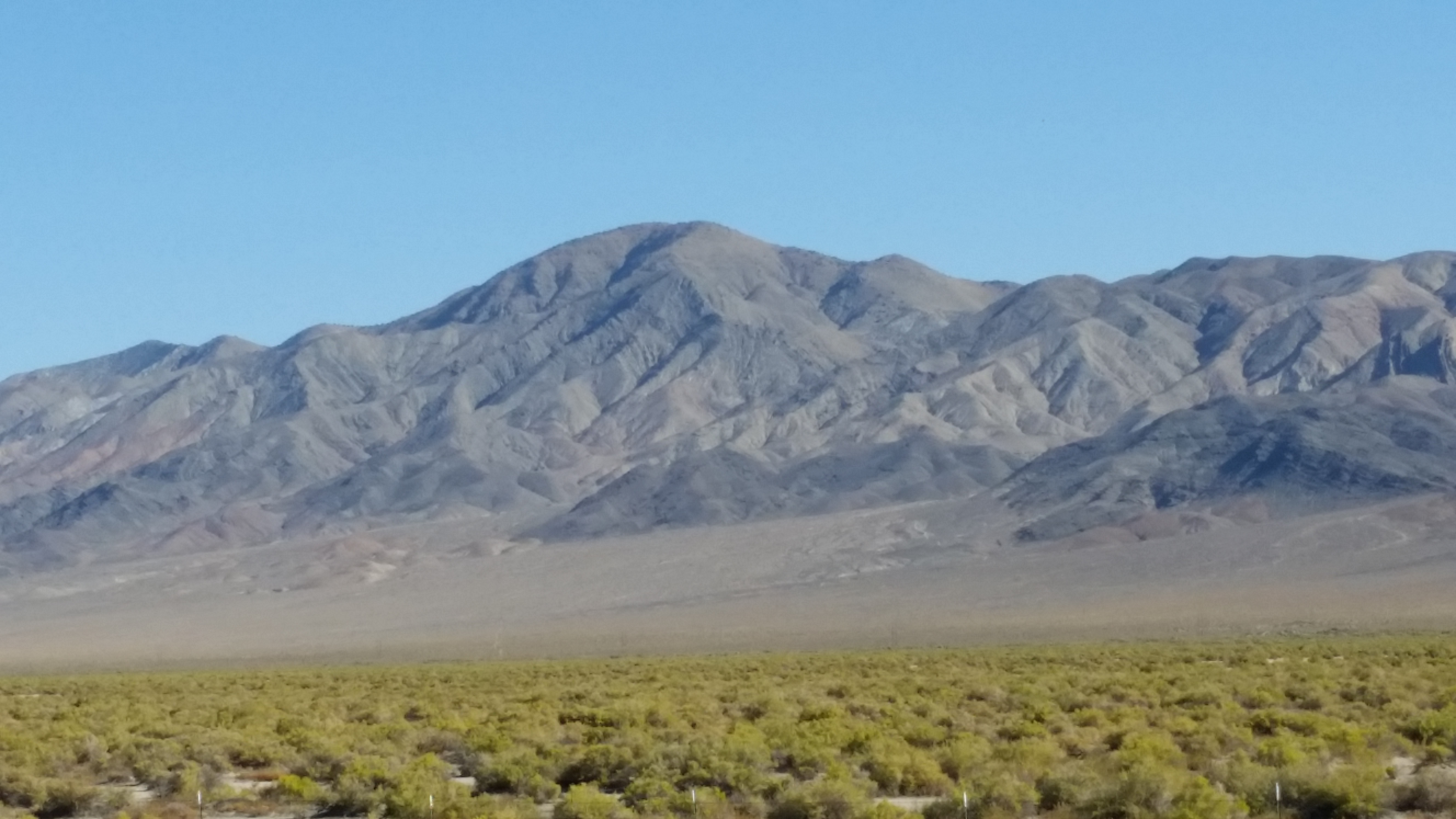 Photograph of Muller Mountain in the Gabbs Valley Range, East of Luning, NV